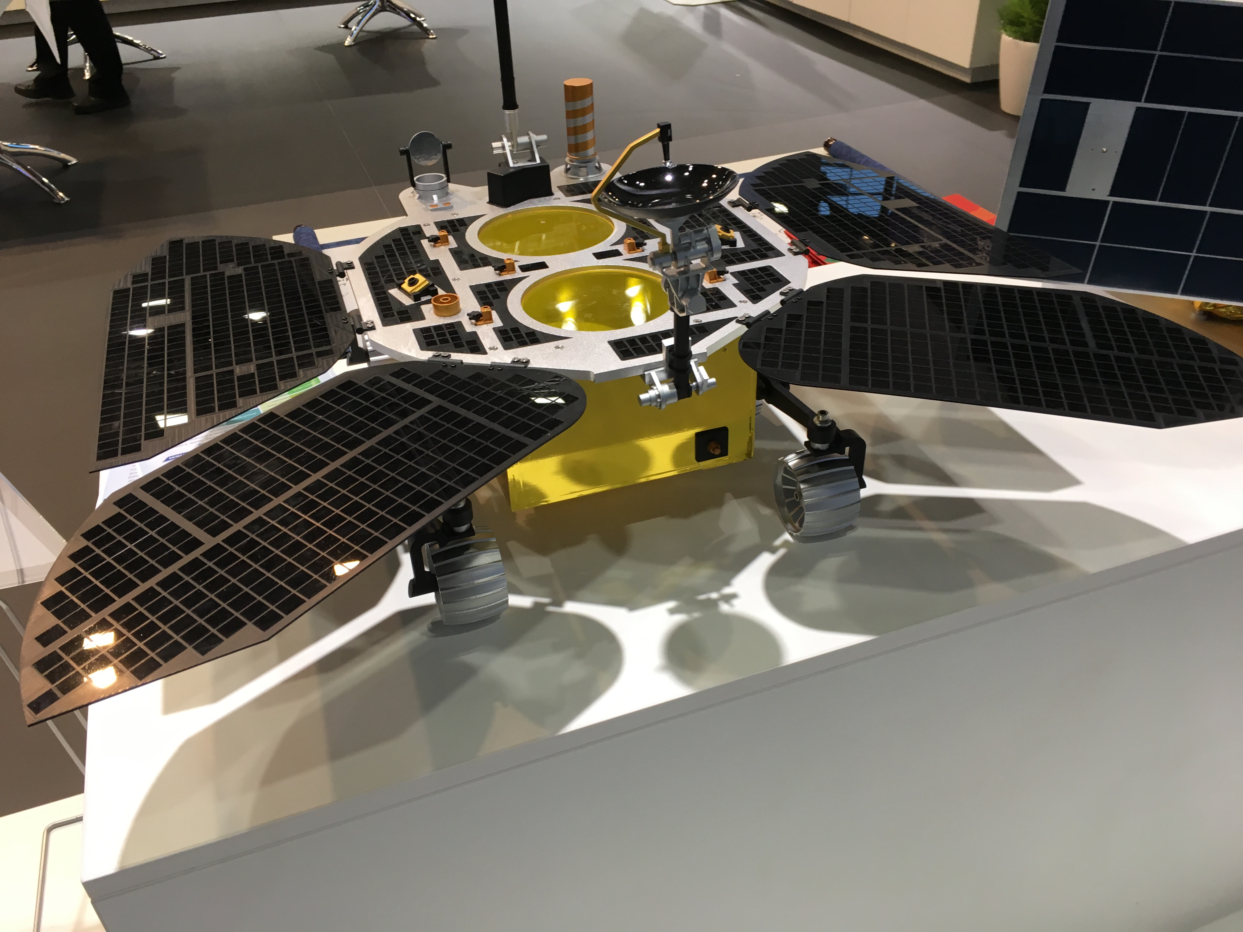 Mockup of the Mars Global Remote Sensing Orbiter and Small Rover at the 69th International Astronautical Congress 2018 at Bremen